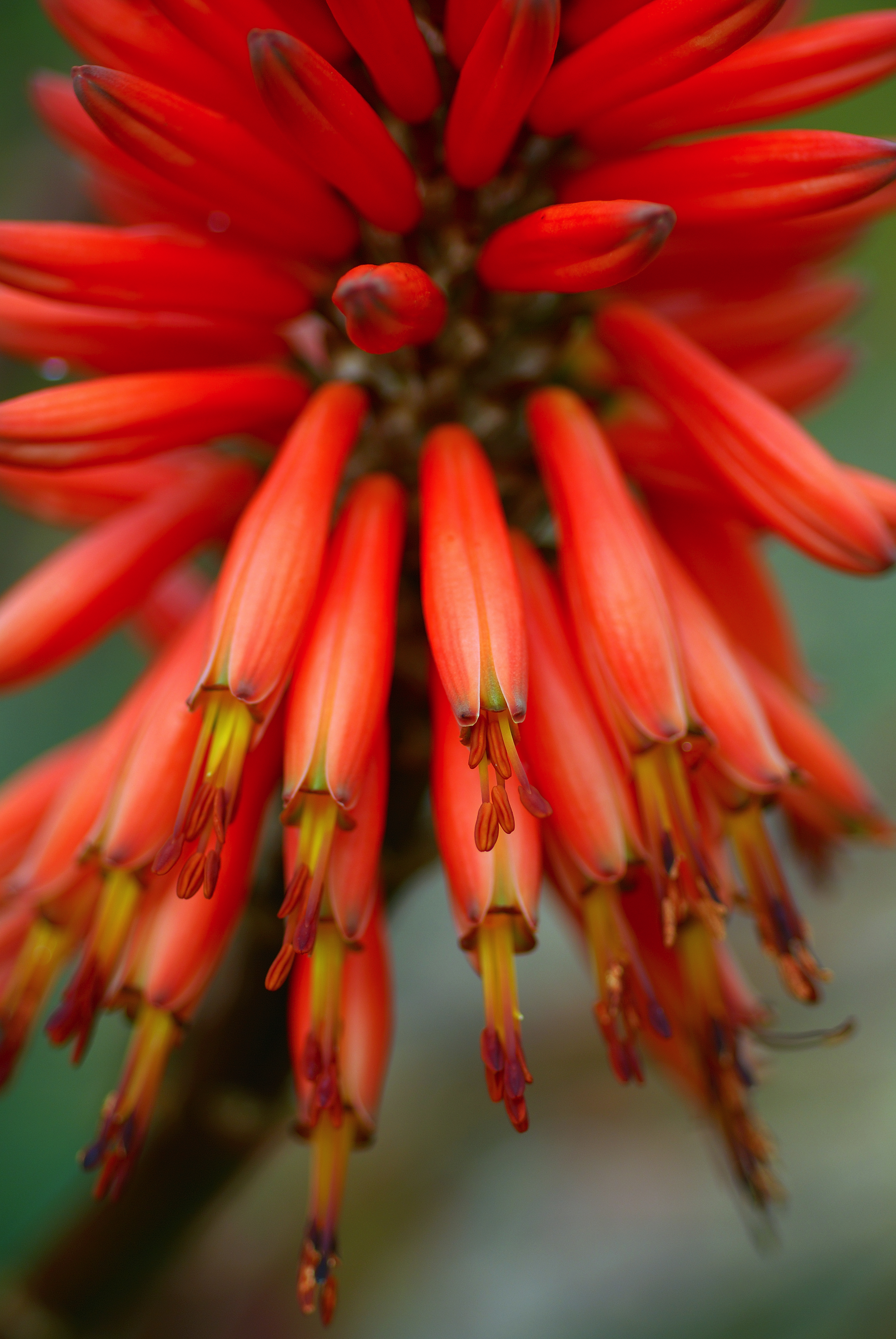 Species from South Africa Photographed at the UC Berkeley Botanical Garden